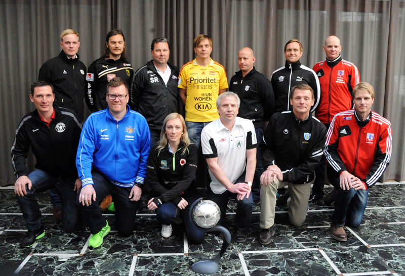 Coaches of Damallsvenskan 2013